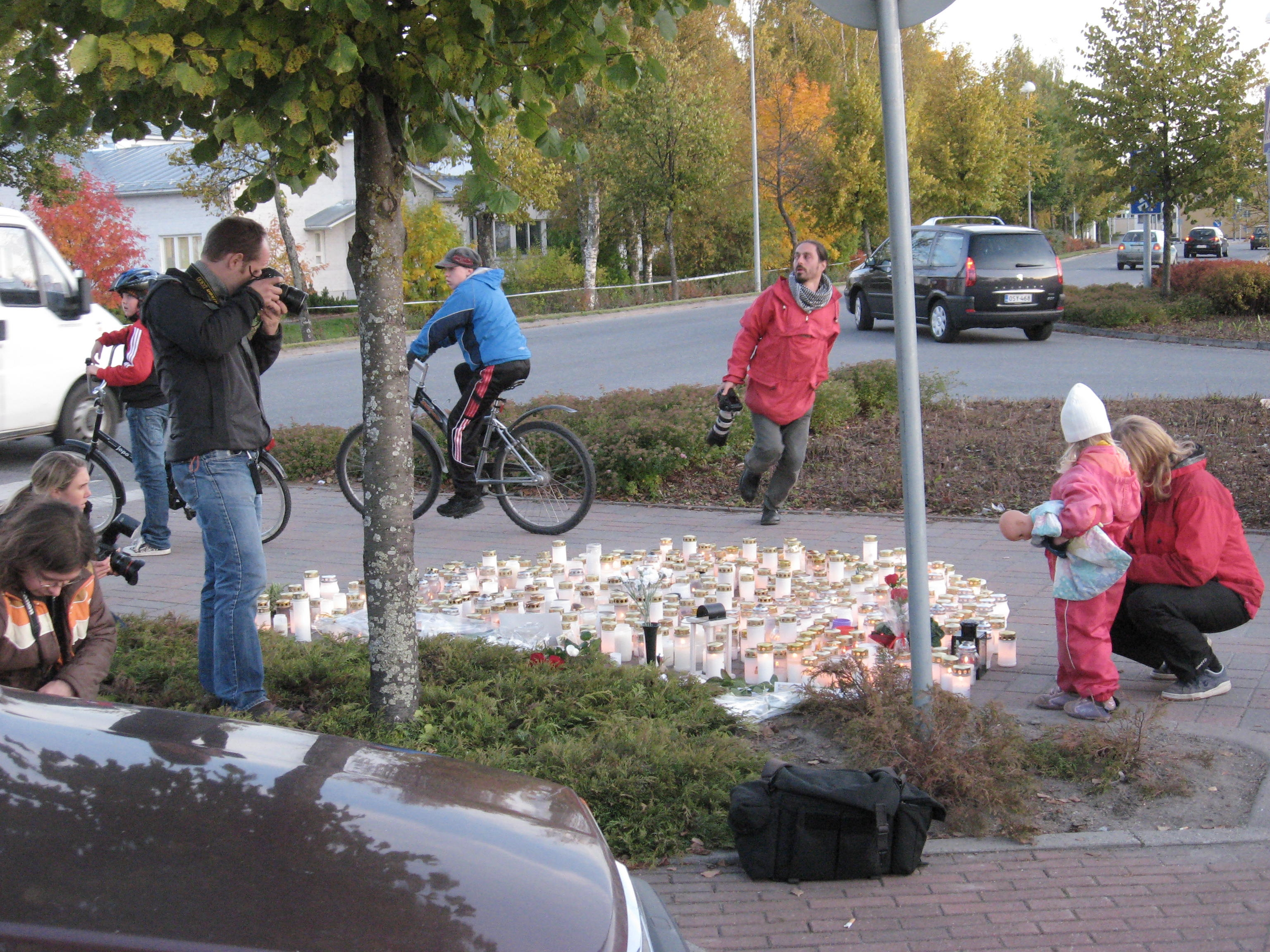 People and candles in front of Kauhajoen koti- ja laitostalousoppilaitos school (in Kauhajoki, Finland) one day after shooting incident.